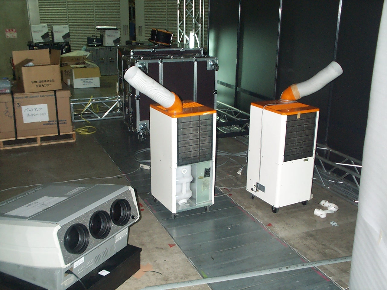 Air conditioners brought in for the overheated computer equipment